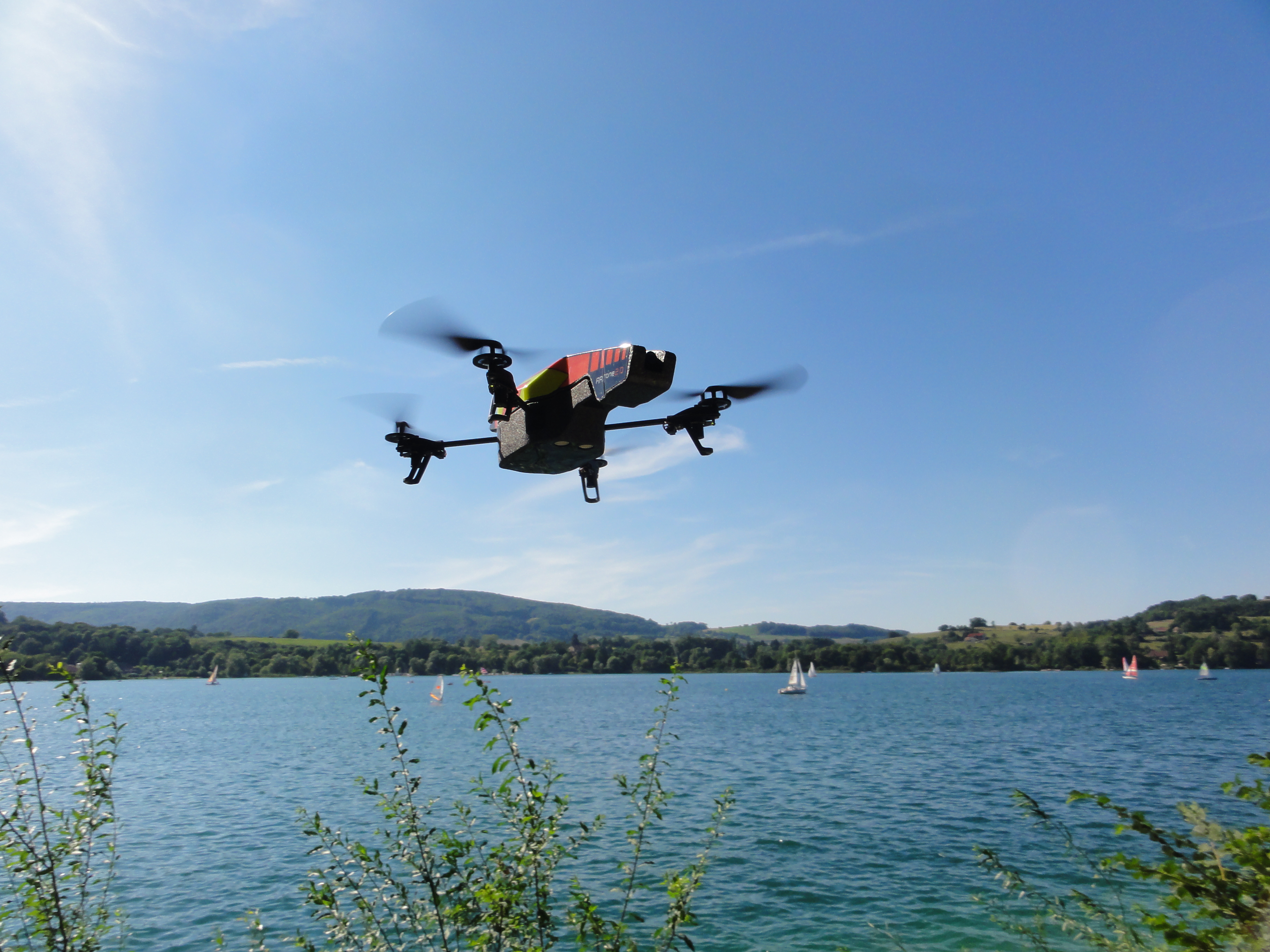 Parrot AR.Drone 2.0 flying